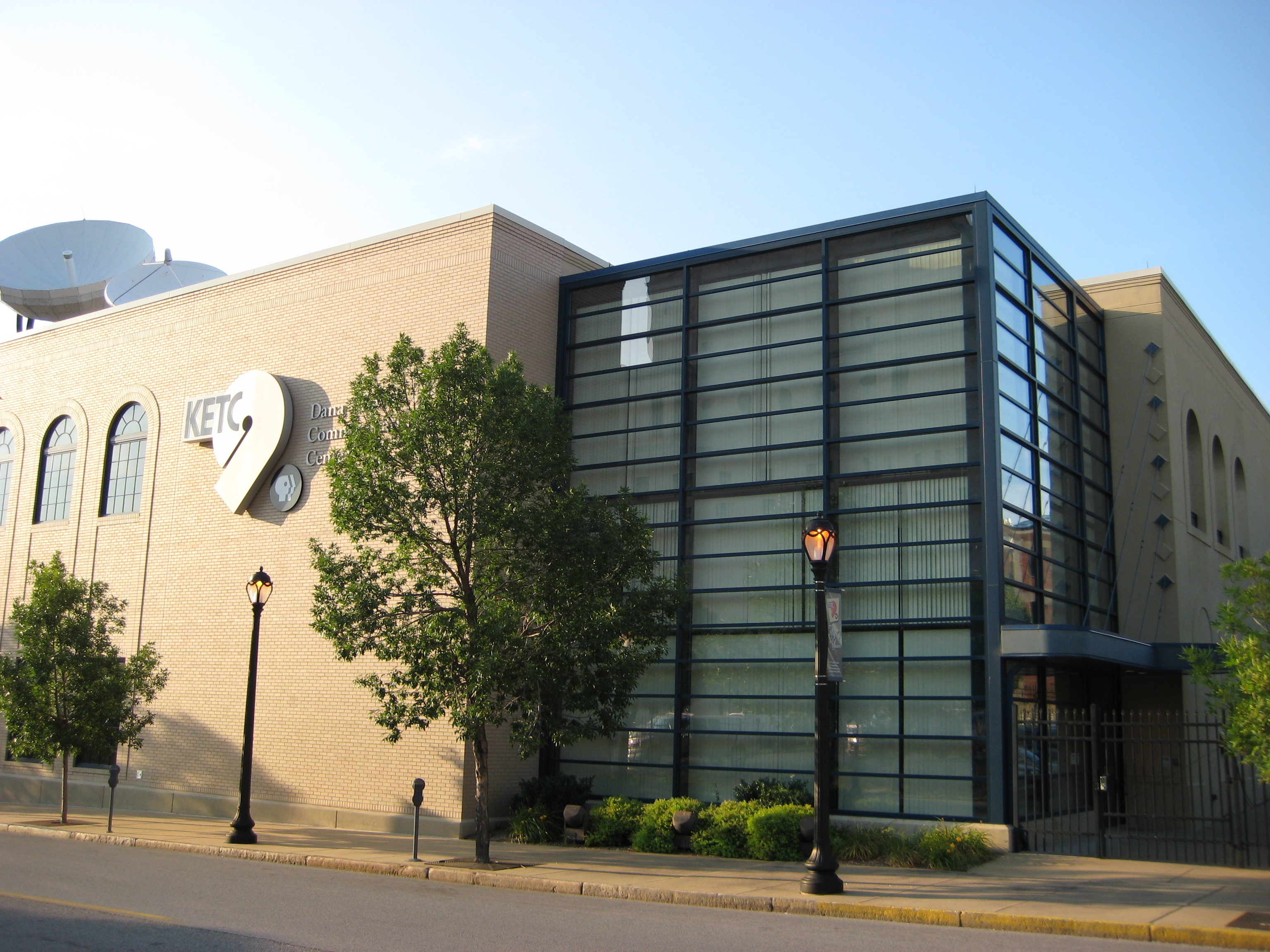 The main entrance to the Channel 9/KETC television station in St. Louis, Missouri, United States.